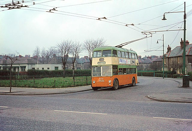 British Trolleybuses - Glasgow